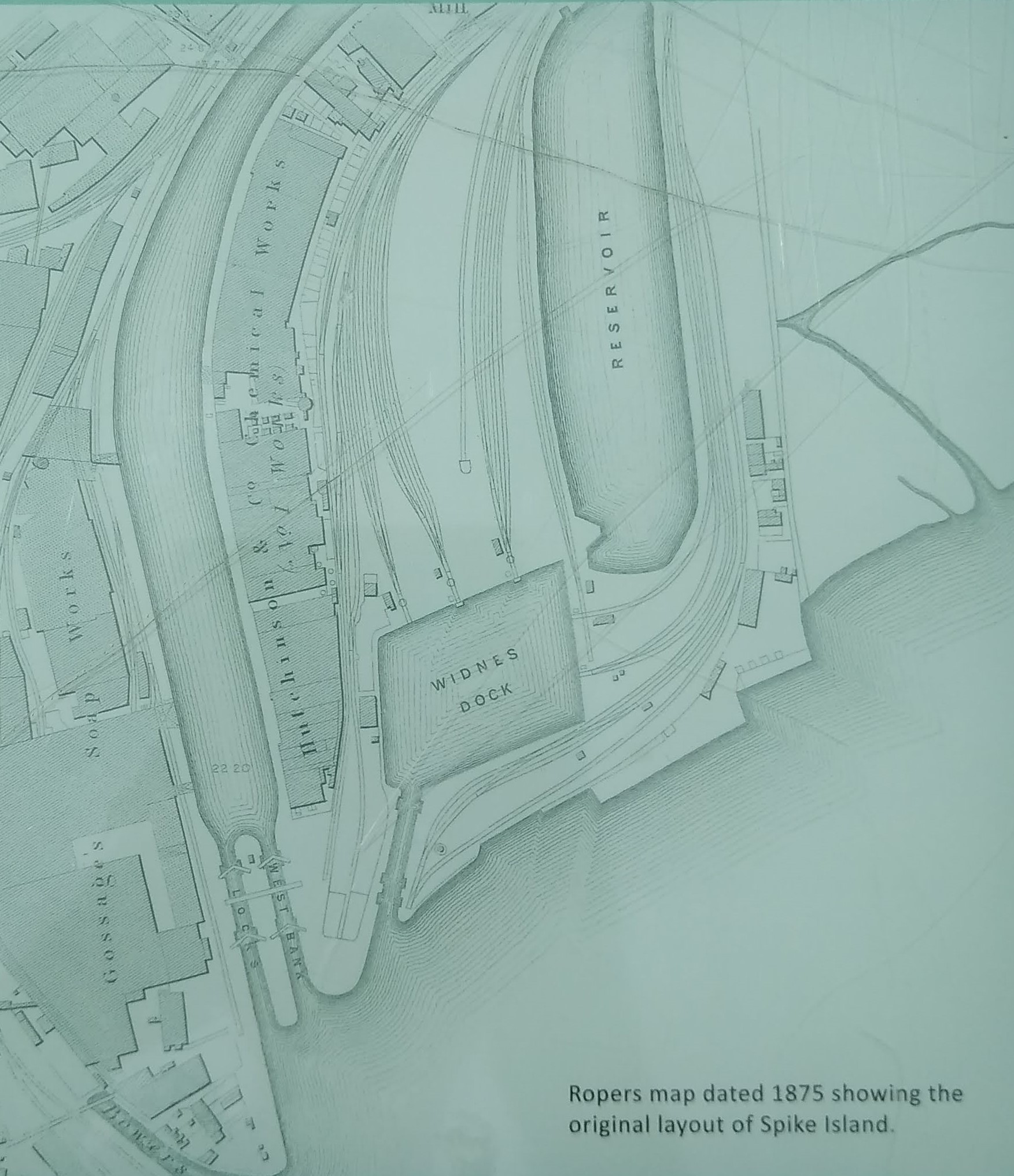 Graphical layout of Spike Island. Includes Widnes Dock, railway lines, reservoir, Gossages Soap Work, Hutchinson & Co Chemical Works. By Ropers, dated 1875